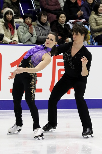 Tessa Virtue and Scott Moir at the 2016 NHK Trophy